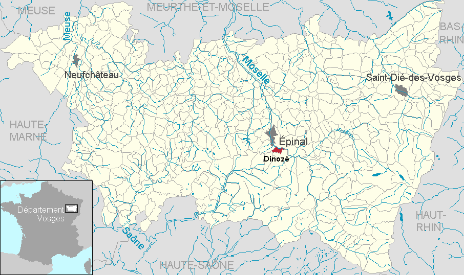 Dinozé in the department of Vosges, Lorraine, France